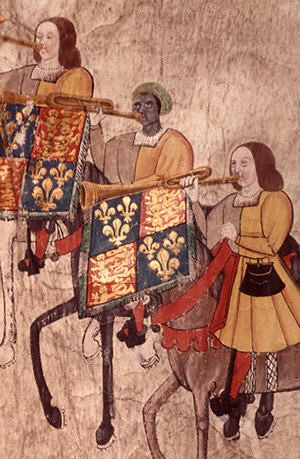 Black Trumpeter at Henry VIII's Tournament.""